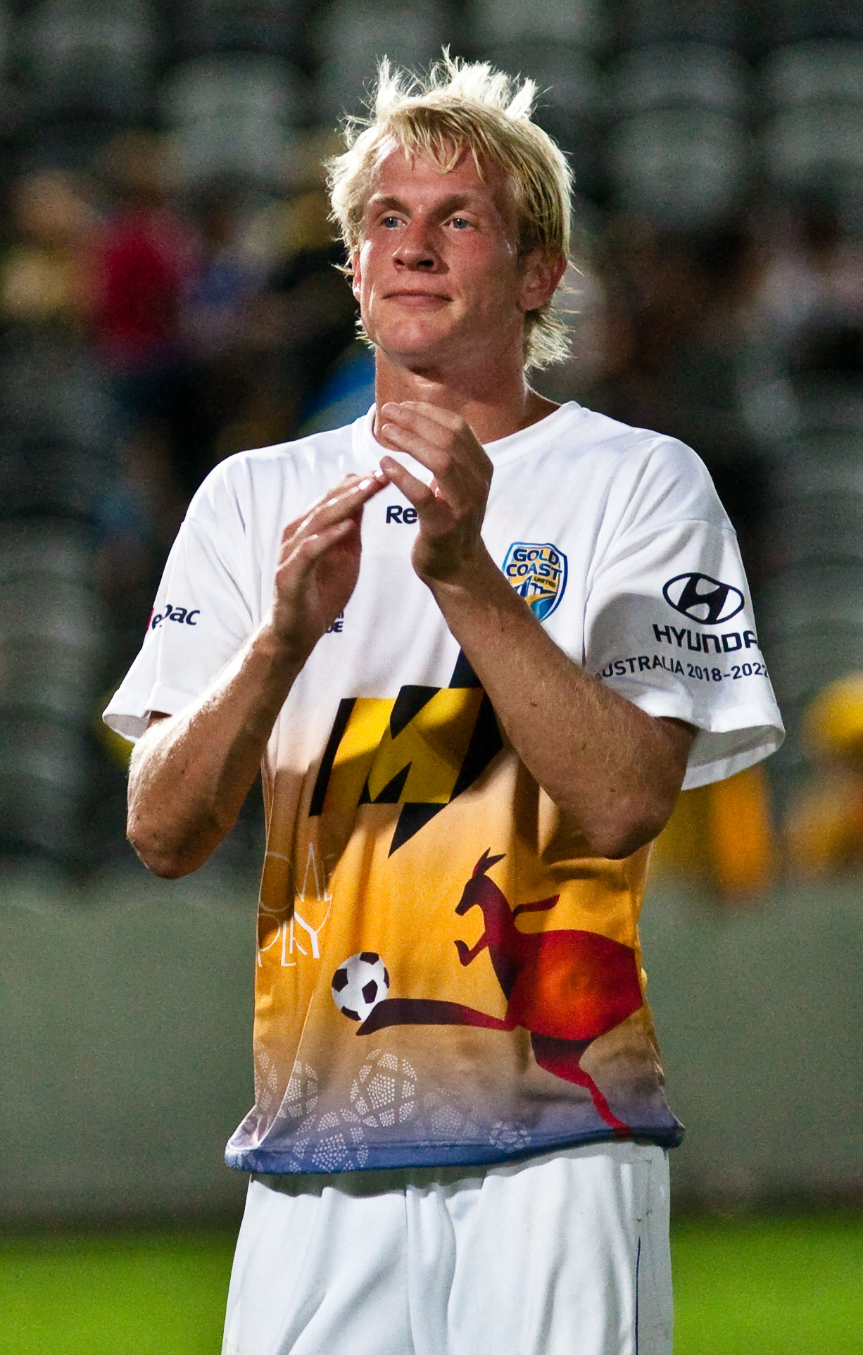 Bas van den Brink after playing for Gold Coast United against the Central Coast Mariners.